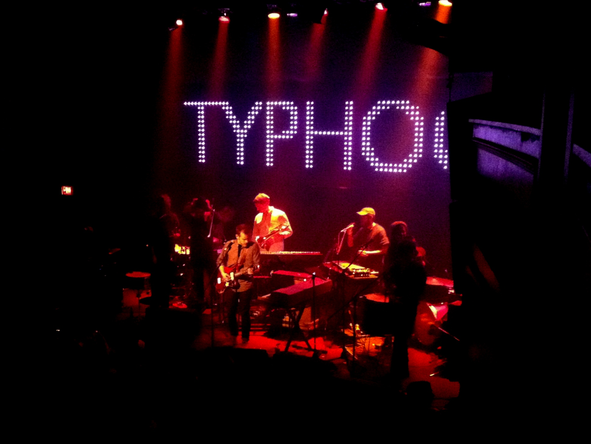 Portland indie rock band Typhoon playing at the Venue in Vancouver, BC, on January 18, 2014.